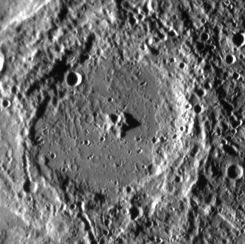 Boccaccio crater on Mercury. Cropped from MESSENGER Narrow Angle Camera image. Emission Angle: 1.3 Incidence Angle: 83.2 Latitude: -82.2 Longitude: 324.7 Phase Angle: 84.1